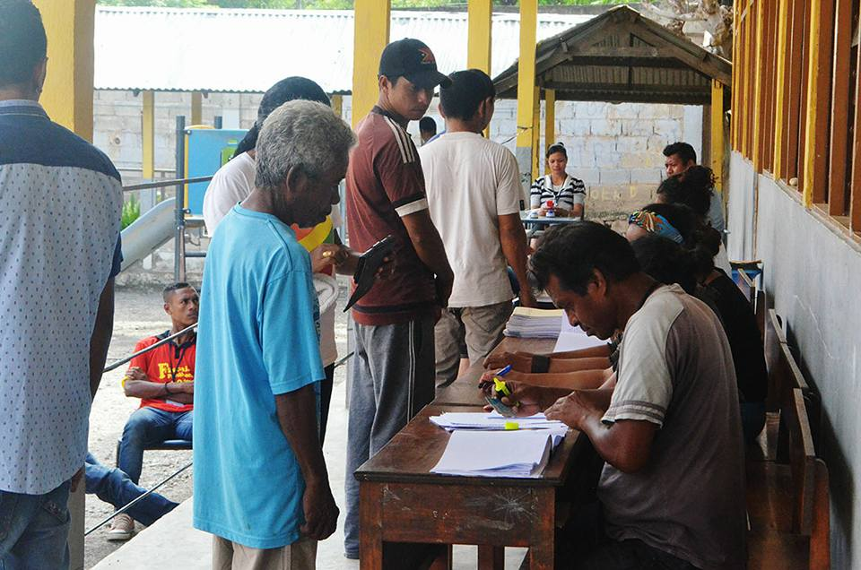 President's election in Timor-Leste